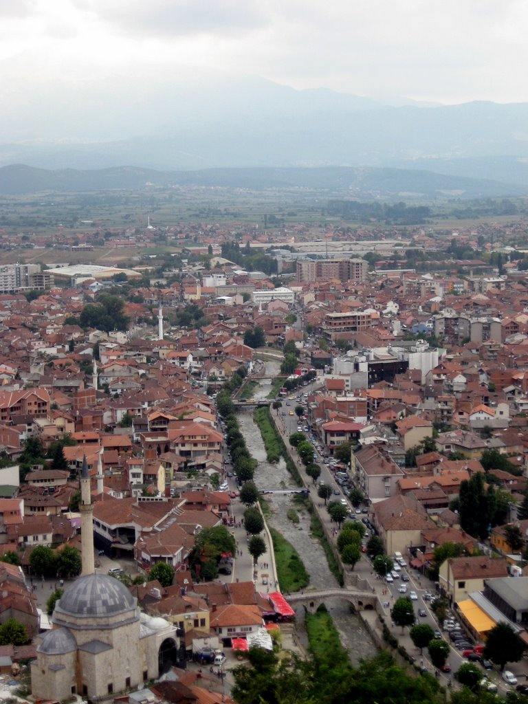 Photos from Arianit Dobroshi for Wikimedia Commons. Original Filename "arianit/PrizrenMirushe/IMG_0017.JPG"